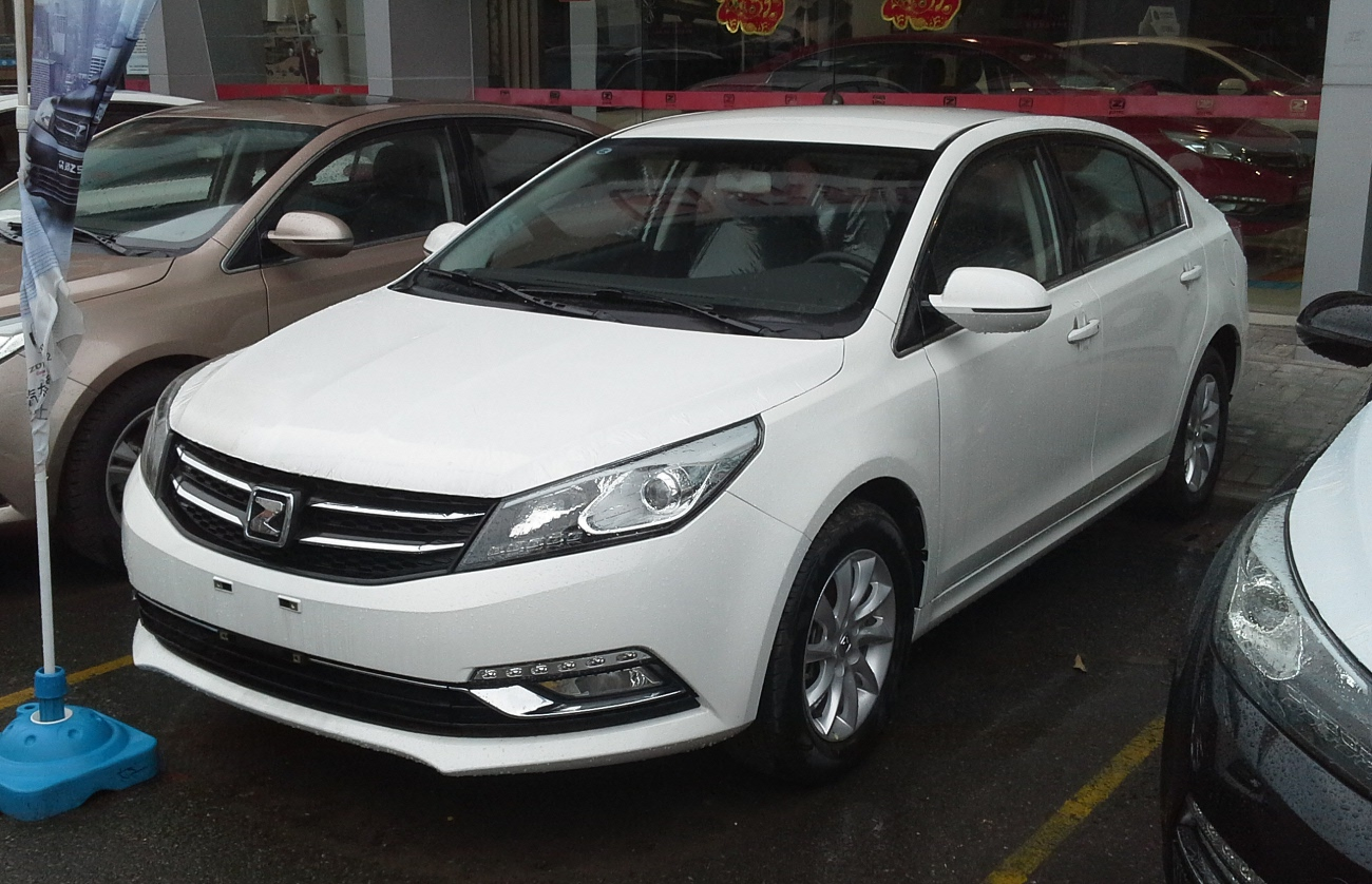 Zotye Z500 photographed in Shanghai, China.